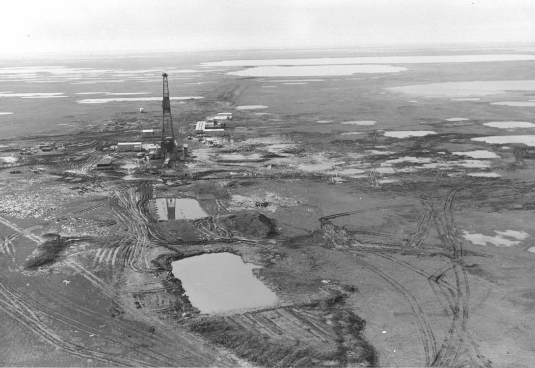 Aerial view of Prudhoe Bay "State #1." FWS keywords: Alaska, TAPS, Trans-Alaska Pipeline, ARLIS, Industries, Oil Production U.S. Fish and Wildlife Service